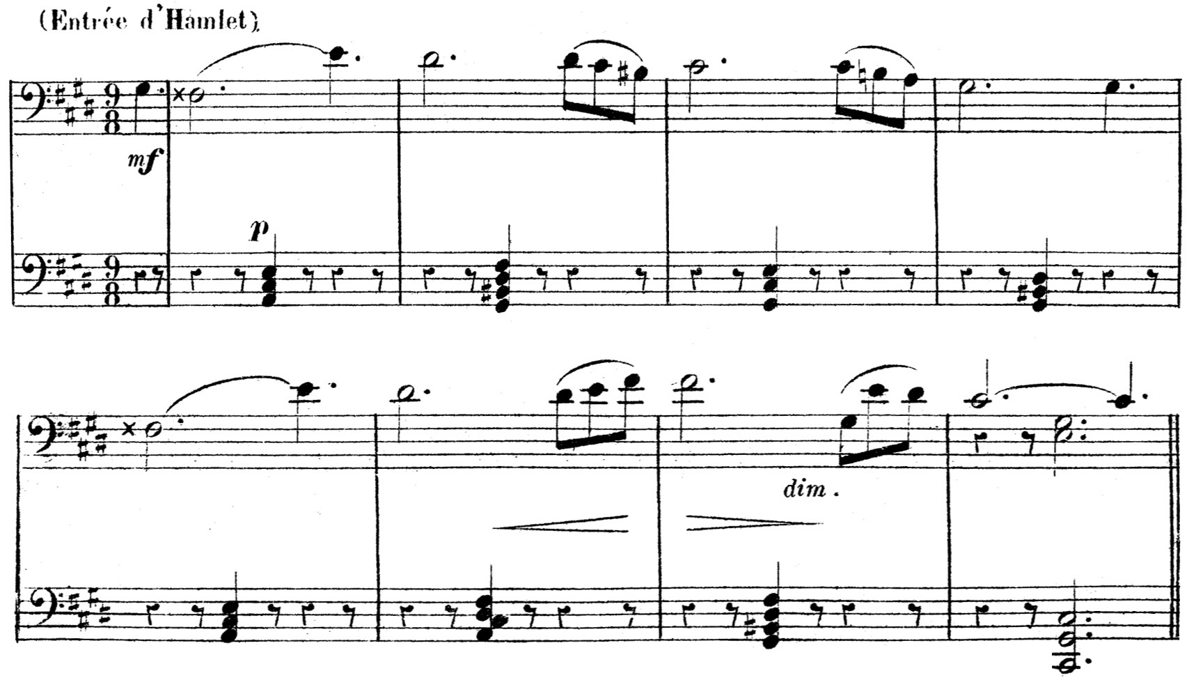 Musical score. Hamlet's Theme from Act 1, Scene 1 (extracted and edited from the piano-vocal score, p. 24).